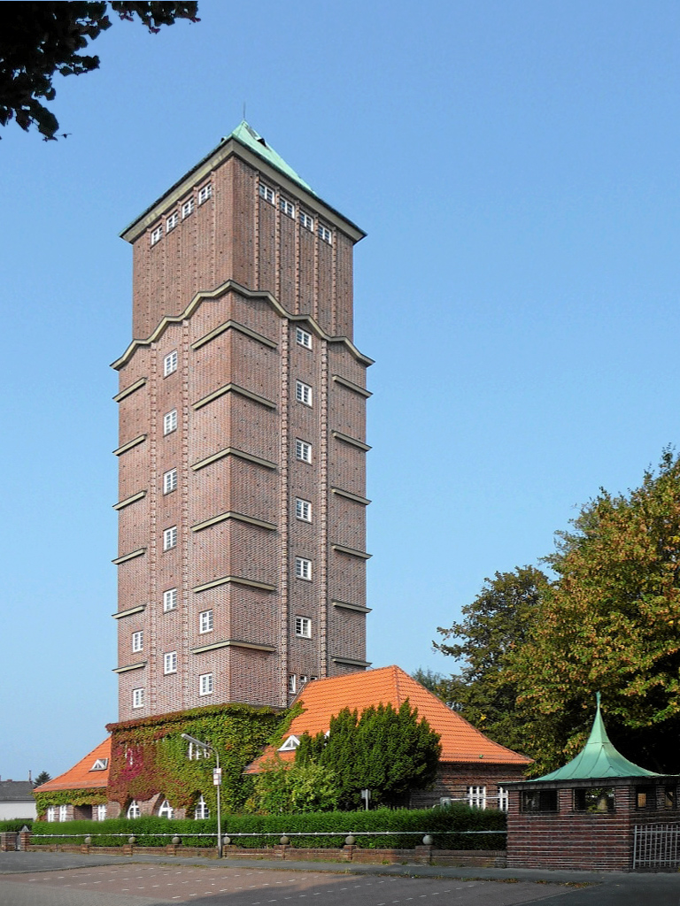 Watertower in Bremen-Blumenthal